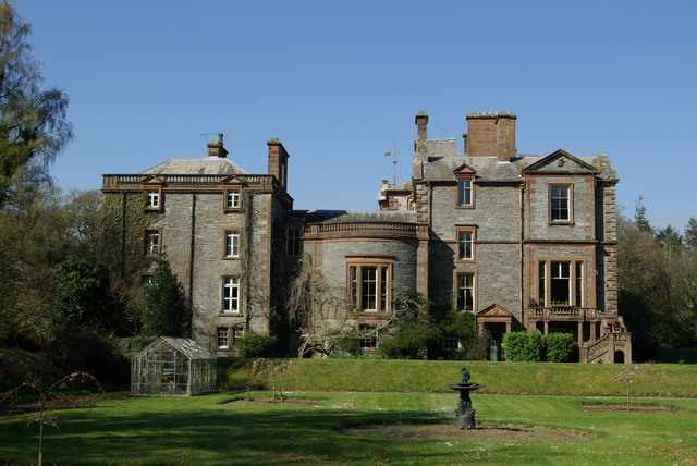 Galloway House